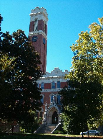 Submitted by the photographer himself. Kirkland Hall, Vanderbilt University, October 2006